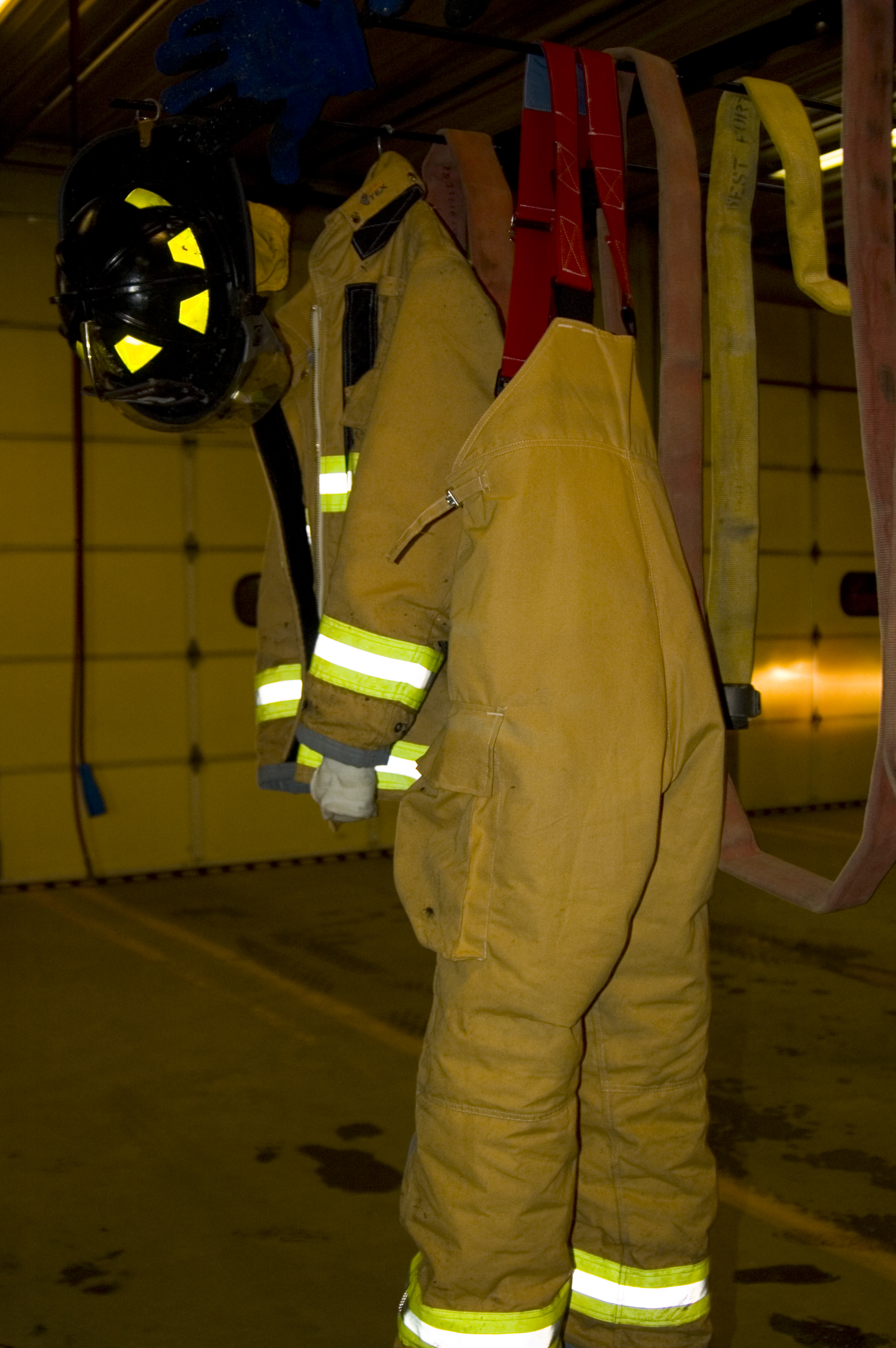 Firefighter's bunker pants or turnout trousers. Photo by Justin DiPierro